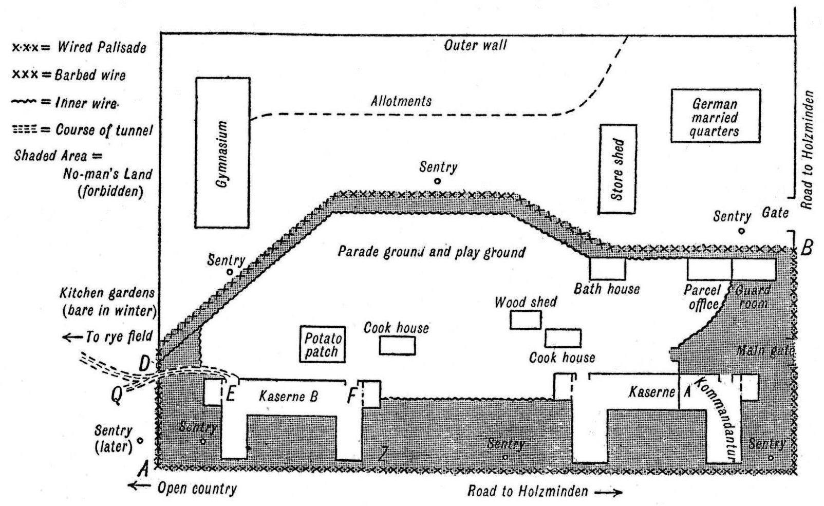 General plan of Holzminden PoW camp, 1917-18. South-east is to the top. Additional key: Z = point of egress Medlicott-Walter escape. F = officers' entrance B house. E = orderlies' entrance B house. D = postern gate. Q = original point of egress of tunnel. Later blind alley.